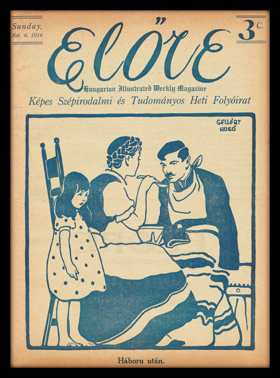 Cover of Elöre featuring cover art of Hugo Gellert. "Háboru után." = "Out of the War." Issue date: February 6, 1916. Published in USA prior to 1923, public domain.